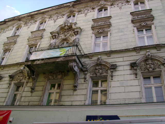 neo-baroque building in Rybnik, Upper Silesia